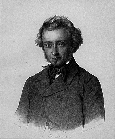 J.A. Alberdingk Thijm (1820-1889), Dutch author